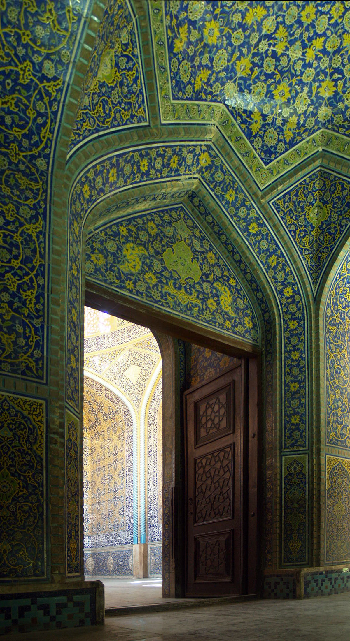 L-shaped entrance of Sheikh Lotf Allah Mosque, Isfahan, Iran. 1602-1619.